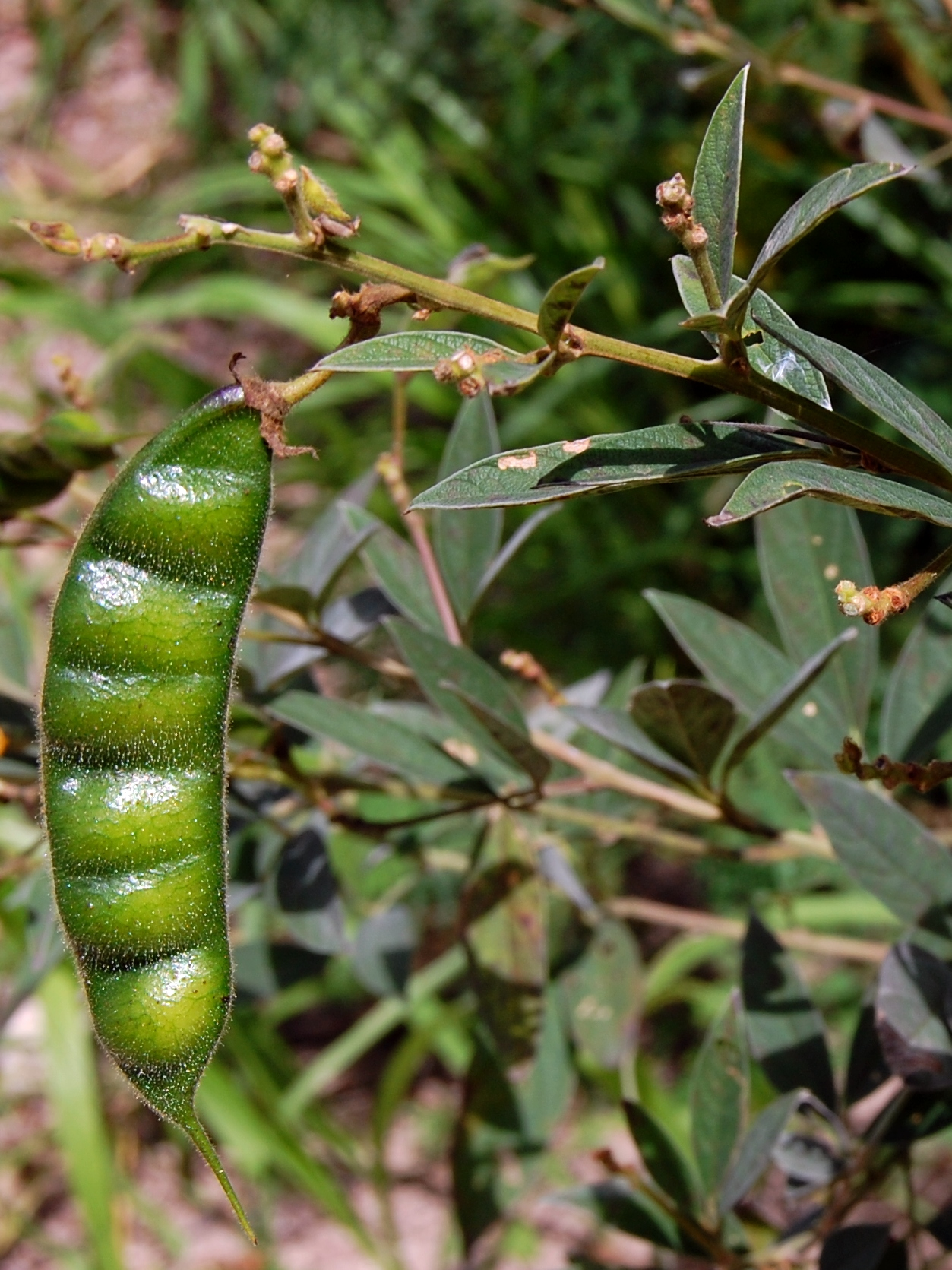 Pigeon pea Cajanus cajan, planted in Ayotupas, West Timor, Indonesia. Young pod.